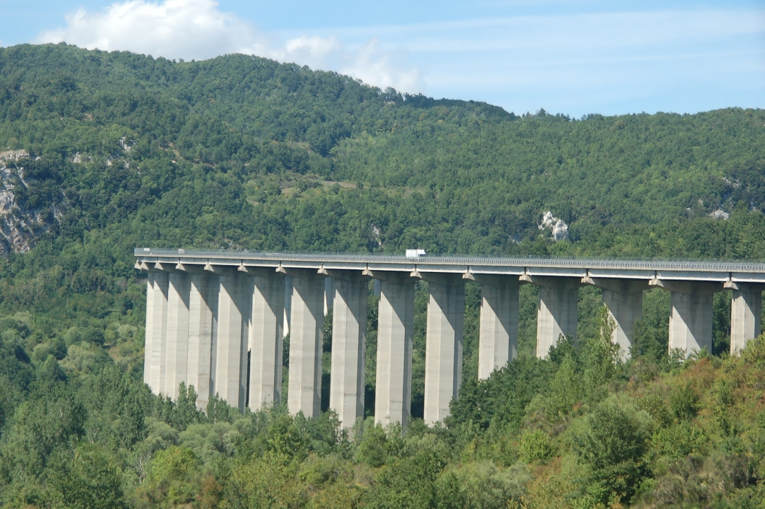 Viaduct "Pietrasecca", highway A24, Carsoli, Abruzzo, Italy.